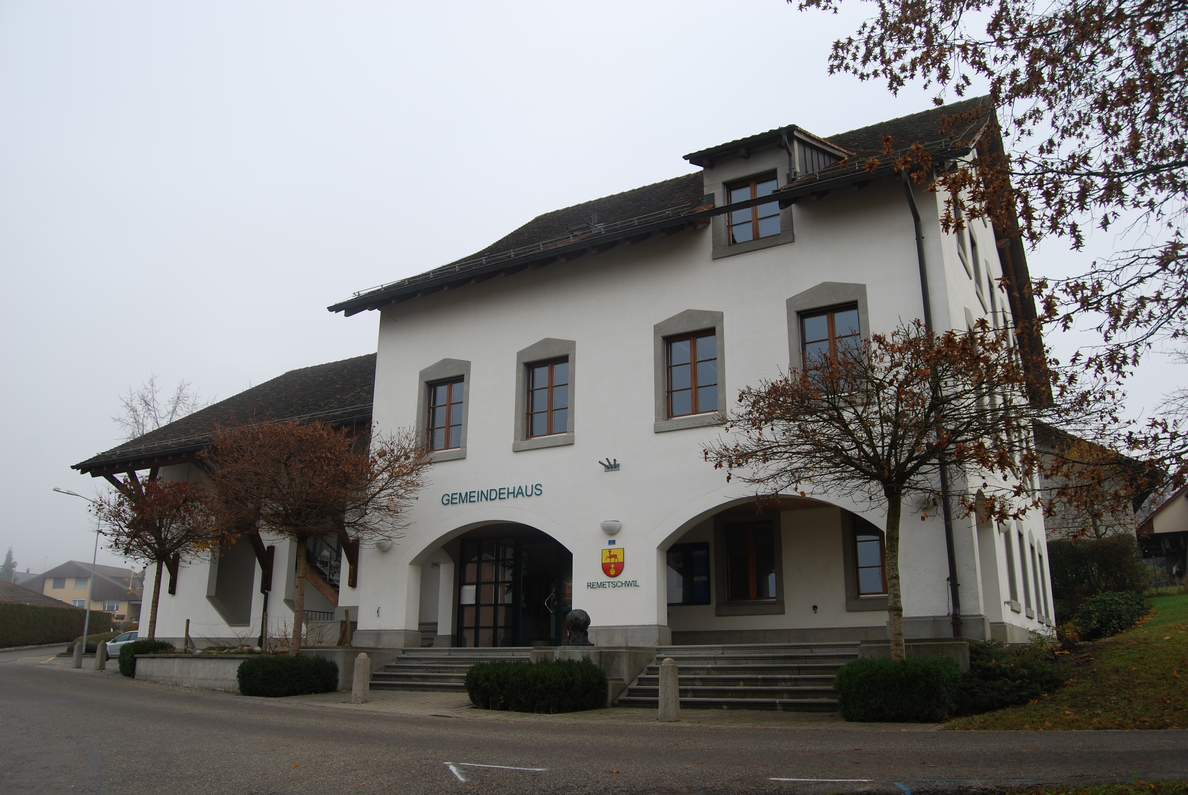 Municipality of Remetschwil, canton of Aargau, SwitzerlandEsperanto: Komunuma domo de Remetschwil, Kantono Argovio, Svislando